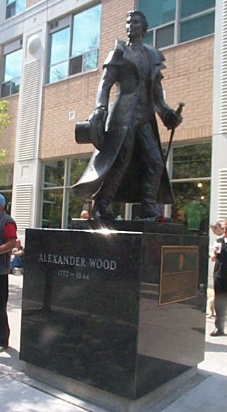 Statue of Alexander Wood in Toronto, Ontario, Canada.